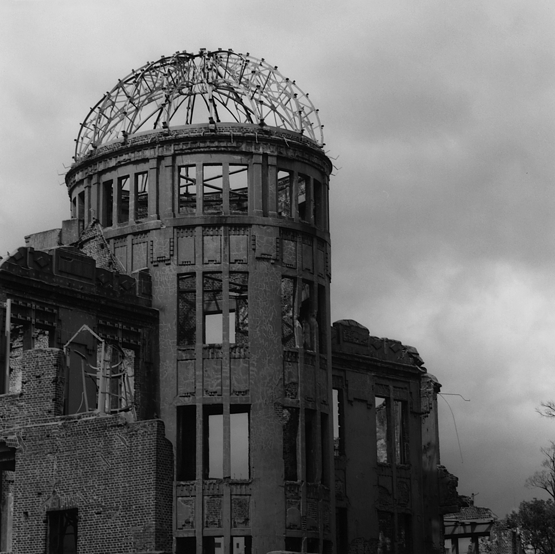 A-Bomb Dome, Hiroshima, Hiroshima Prefecture, Japan. Photo by Fg2 I took this photo.